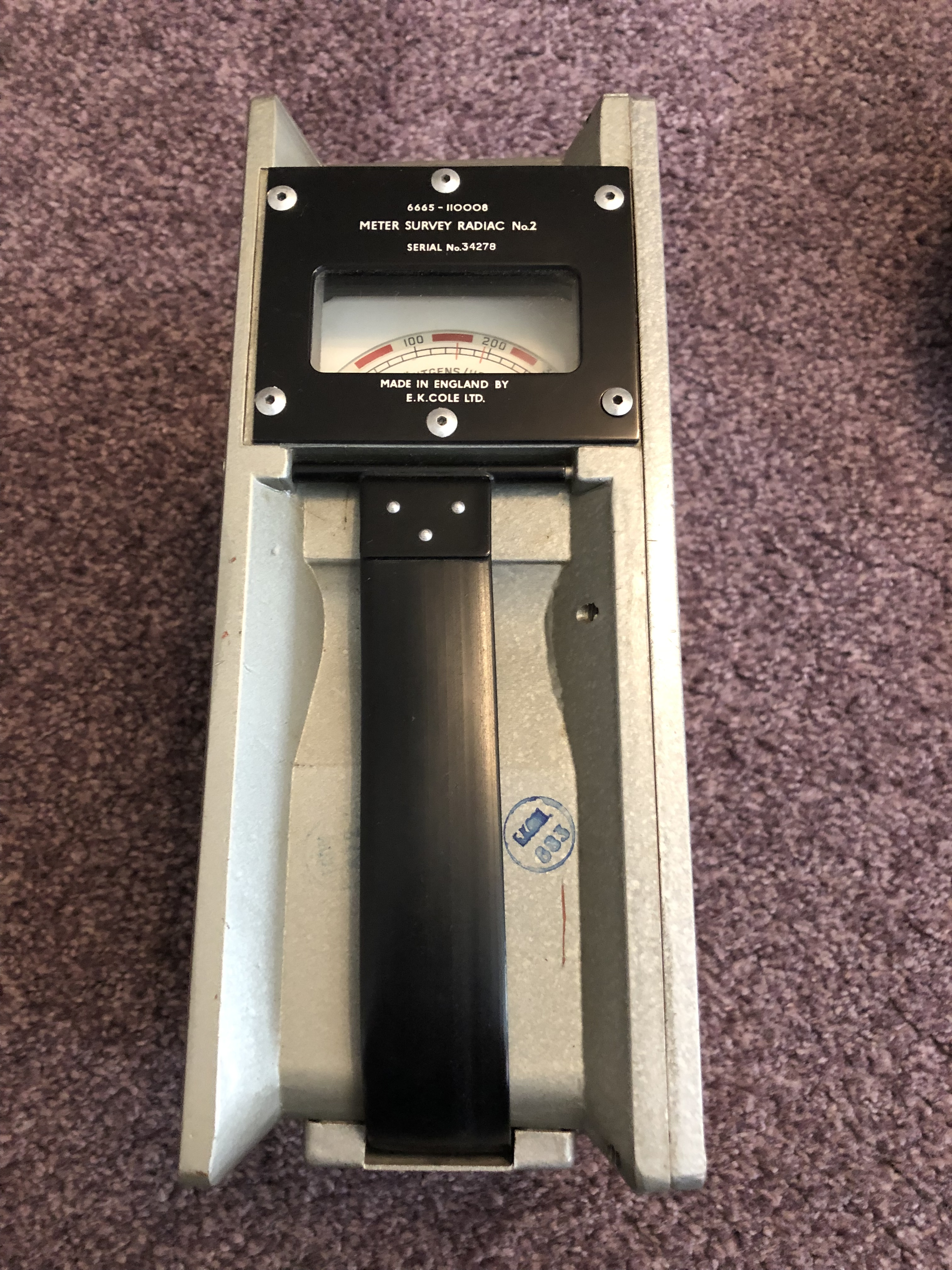 Photo showing the radiac survey meter used by the Royal Observer Corps.